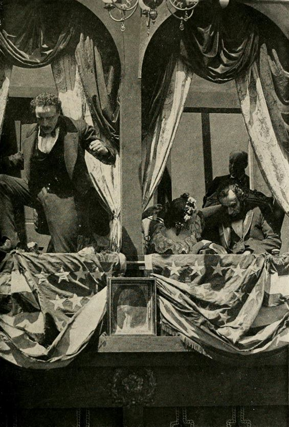 Still from the American film The Birth of a Nation (1915), with Raoul Walsh as John Wilkes Booth and Joseph Henabery as Abraham Lincoln, facing page 70 of the novel, with caption,"The Assassination".